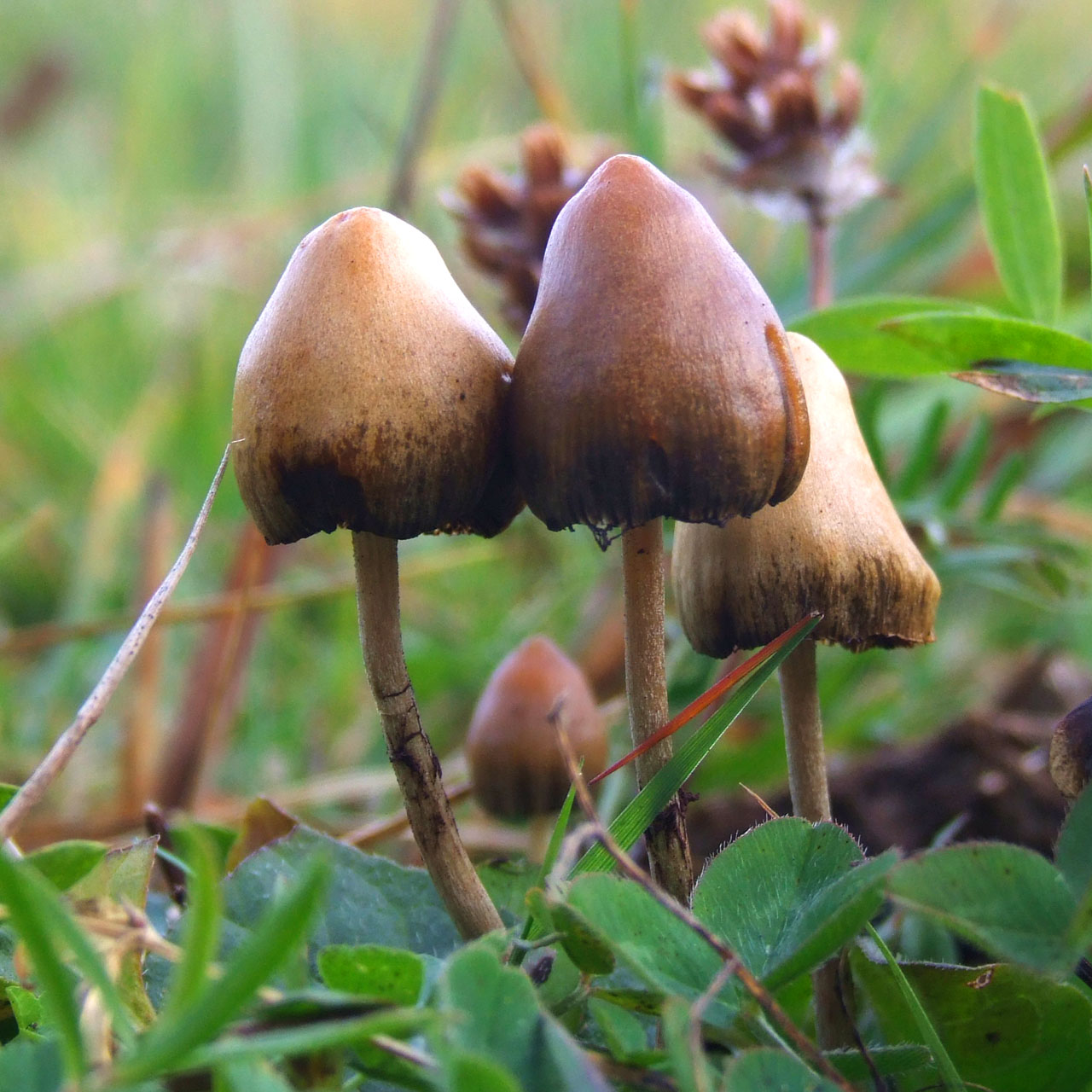 Fruit bodies of the hallucinogenic mushroom Psilocybe semilanceata (Fr.) Kumm. Specimens photographed in Sweden.